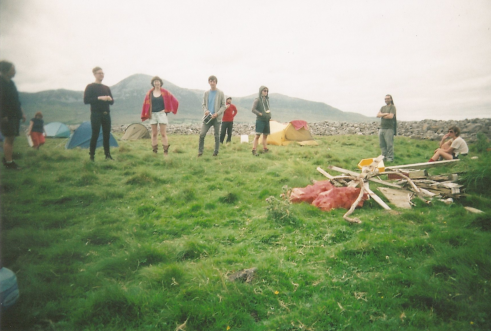 Image of artists on Dorinish island, Clew Bay, County Mayo, Ireland for the Aerial Blue Summer School 2011/